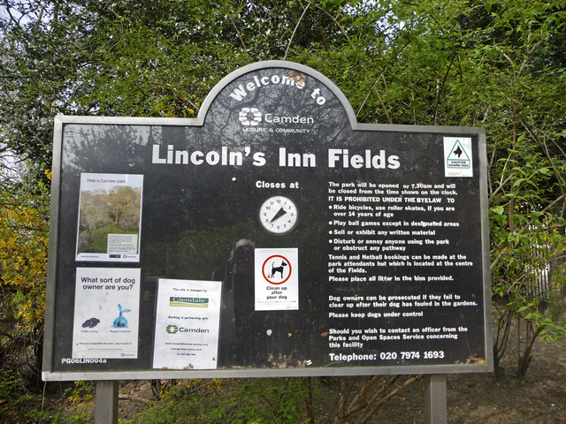 Sign, Lincoln's Inn Fields, London WC1 Sign near entrance to Lincoln's Inn Fields with the various regulations which operate in the park.